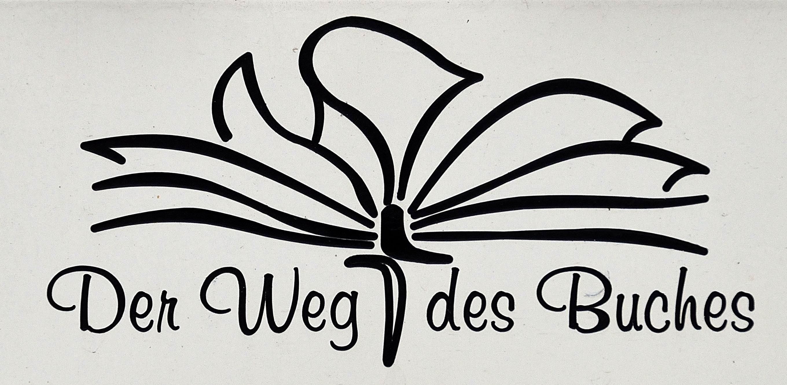 Weg des Buches (trail of the book = bible) is a lutheran pilgrim trail crossing Austria from Schärding to Agoritschach. Logo in Fresach, Carinthia.